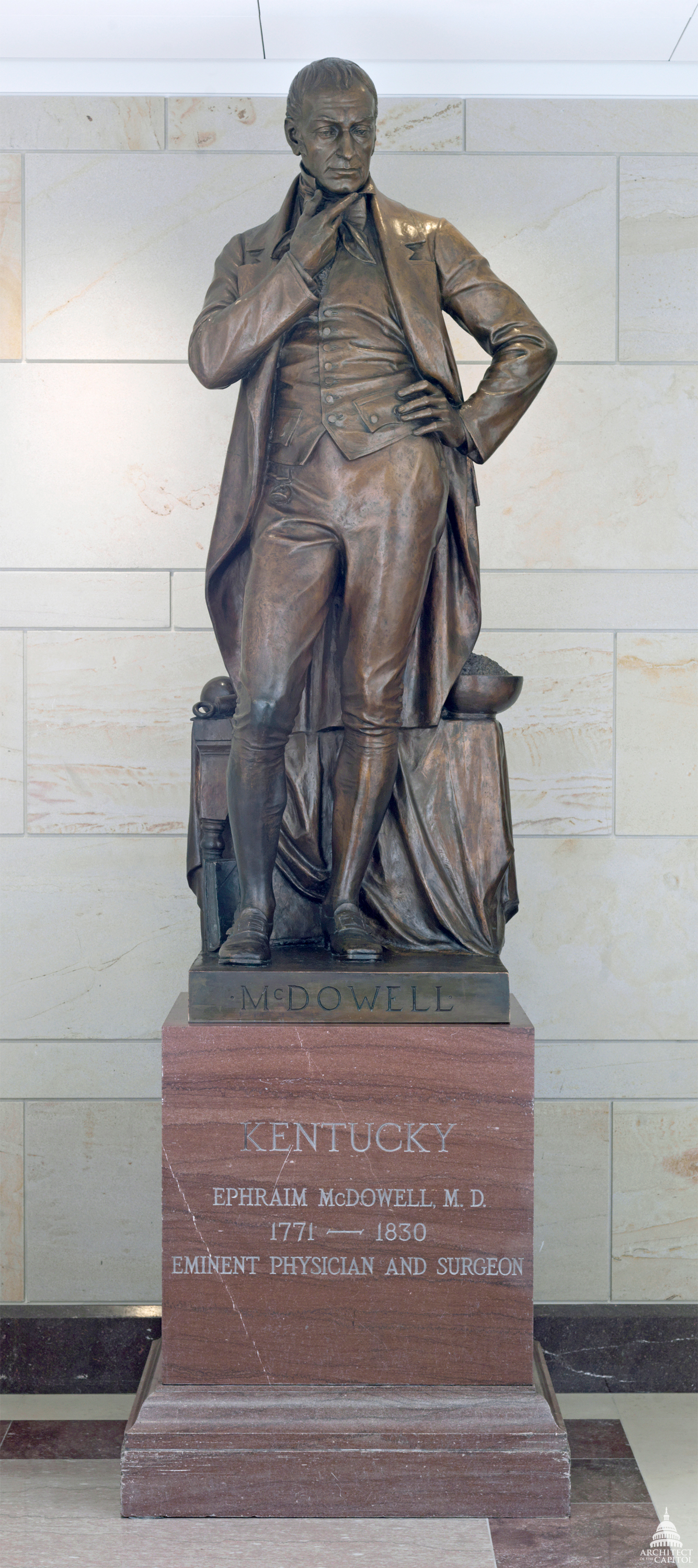 Ephraim McDowell (1771-1830) Kentucky Bronze by Charles H. Niehaus Given in 1929 CVC Upper Level auditorium lobby U.S. Capitol This official Architect of the Capitol photograph is being made available for educational, scholarly, news or personal purposes (not advertising or any other commercial use). When any of these images is used the photographic credit line should read “Architect of the Capitol.” These images may not be used in any way that would imply endorsement by the Architect of the Capitol or the United States Congress of a product, service or point of view. For more information visit